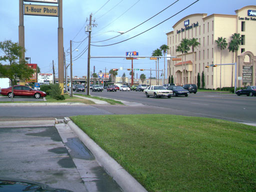 Picture of early morning traffic on Boca Chica Blvd. in Brownsville, Texas. In the background is U.S. Expressway 77/83